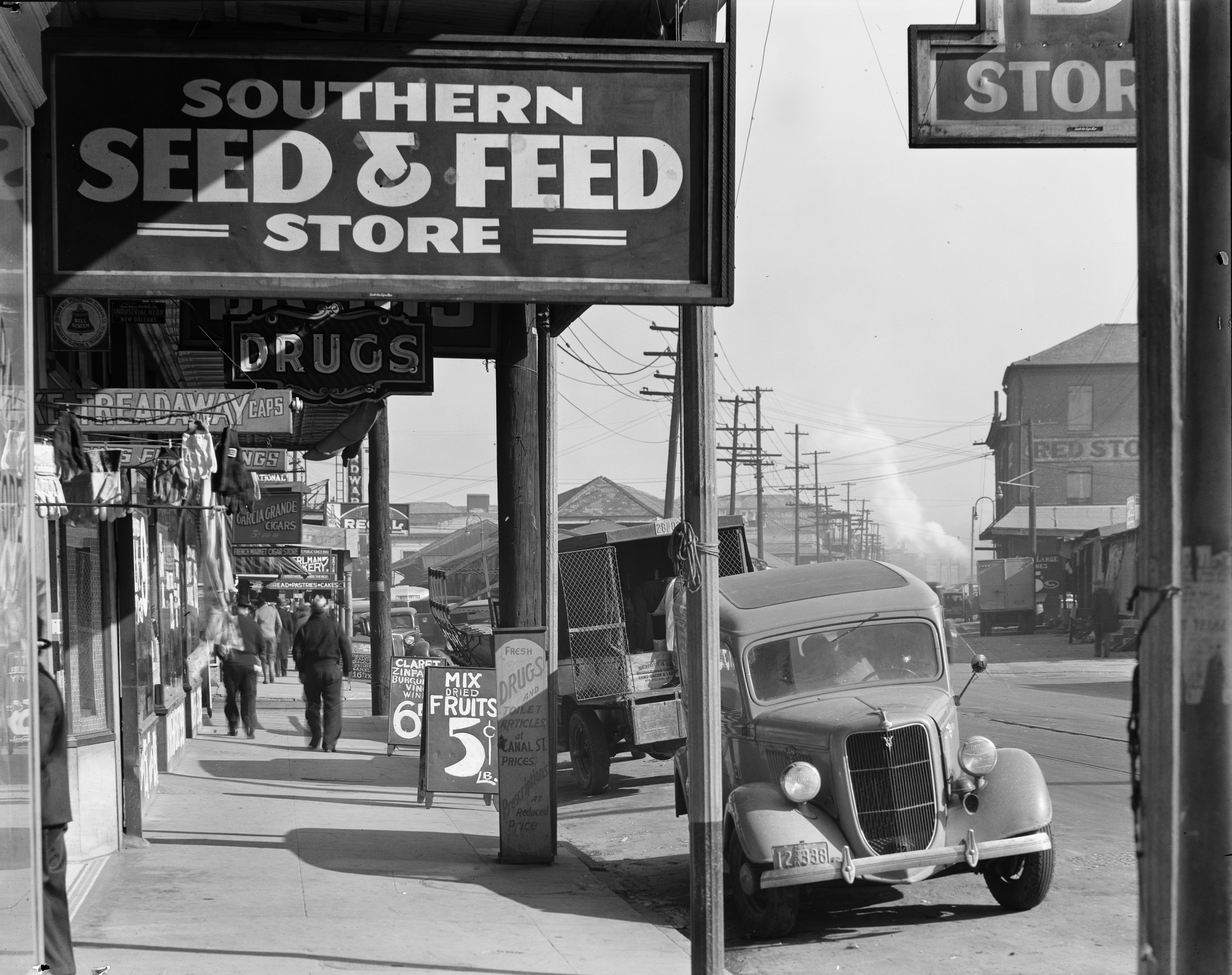 New Orleans, 1935. "Waterfront in New Orleans. French market sidewalk scene. Louisiana". View shows Decatur Street looking downriver from above St. Philip Street. North Peters Street Vs off to the right. The "Red Store" building seen at far right. At left is a sidewalk gallery with a row of signs for shops along the street, with pedestrians on sidewalk, period trucks on the street. The roof of the Vegetable Market building of the French Market (where the Morning Call was) is seen at center above a truck which blocks the view of the rest of the building.